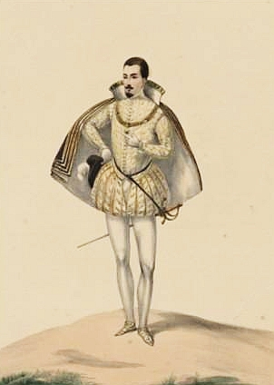 Prosper Dérivis (1808-1880) as Nevers in Meyerbeer's Les Huguenots.